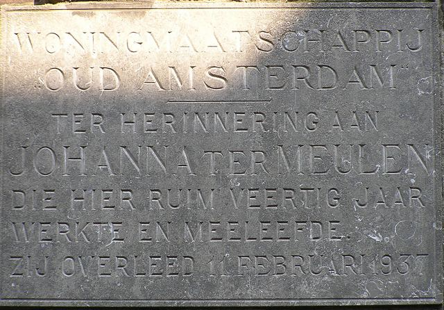 Memorial in the Tuinstraat, Amsterdam